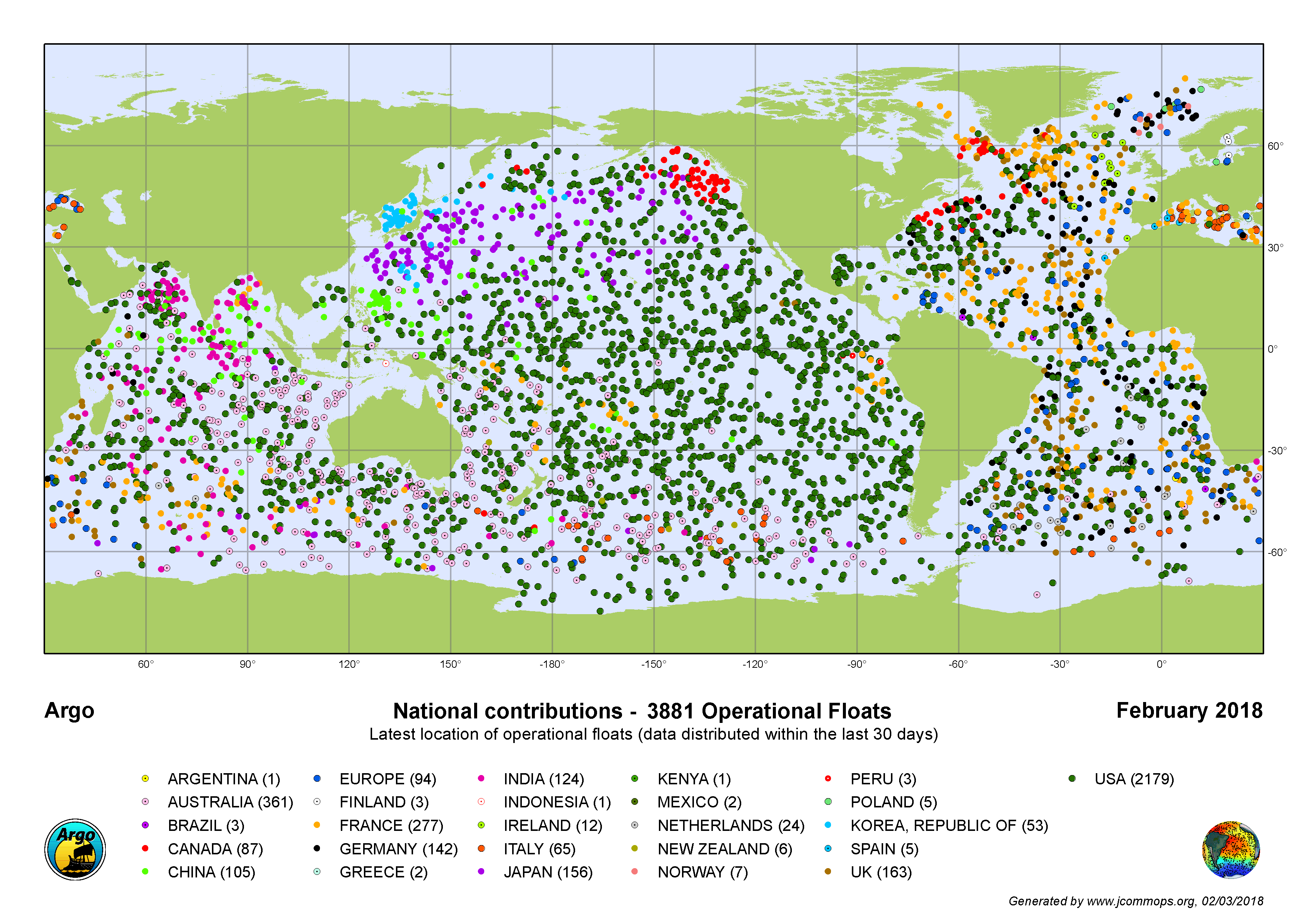 2018-02-countries.png